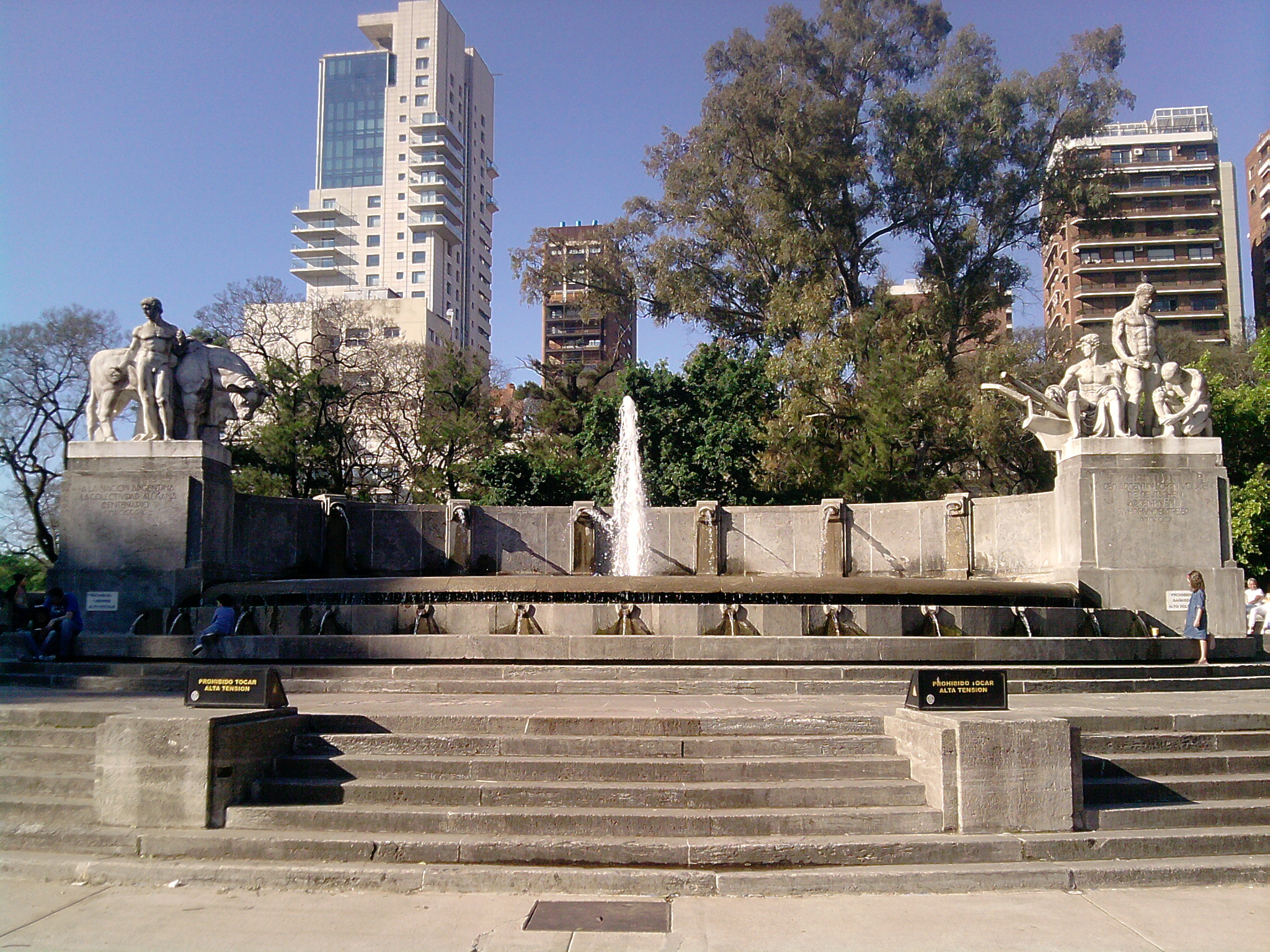 Monument to Argentina's Agricultural Wealth, in Germany Square, Buenos Aires.